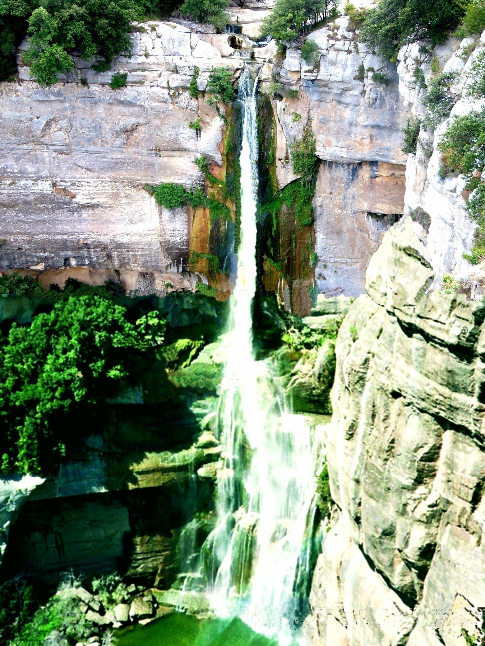 Sallent fall with the Gorga de la riera de Rupit a typical Plunge_pool